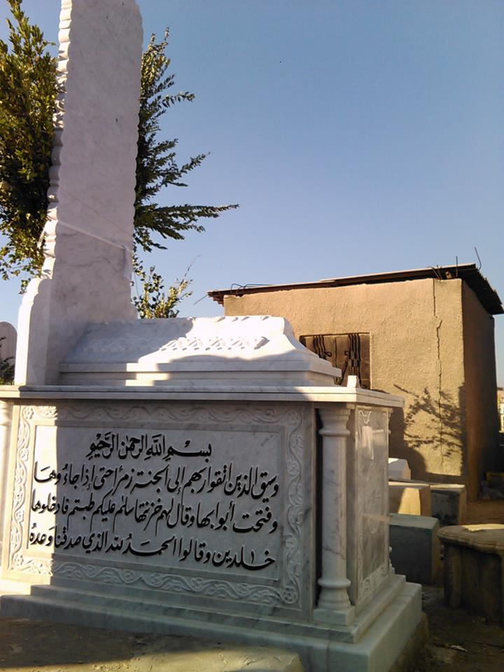 في باب الصغير بدمشق